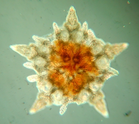 Young brittle star Ophiura albida (Forbes, 1984), diameter 700 Âµm.